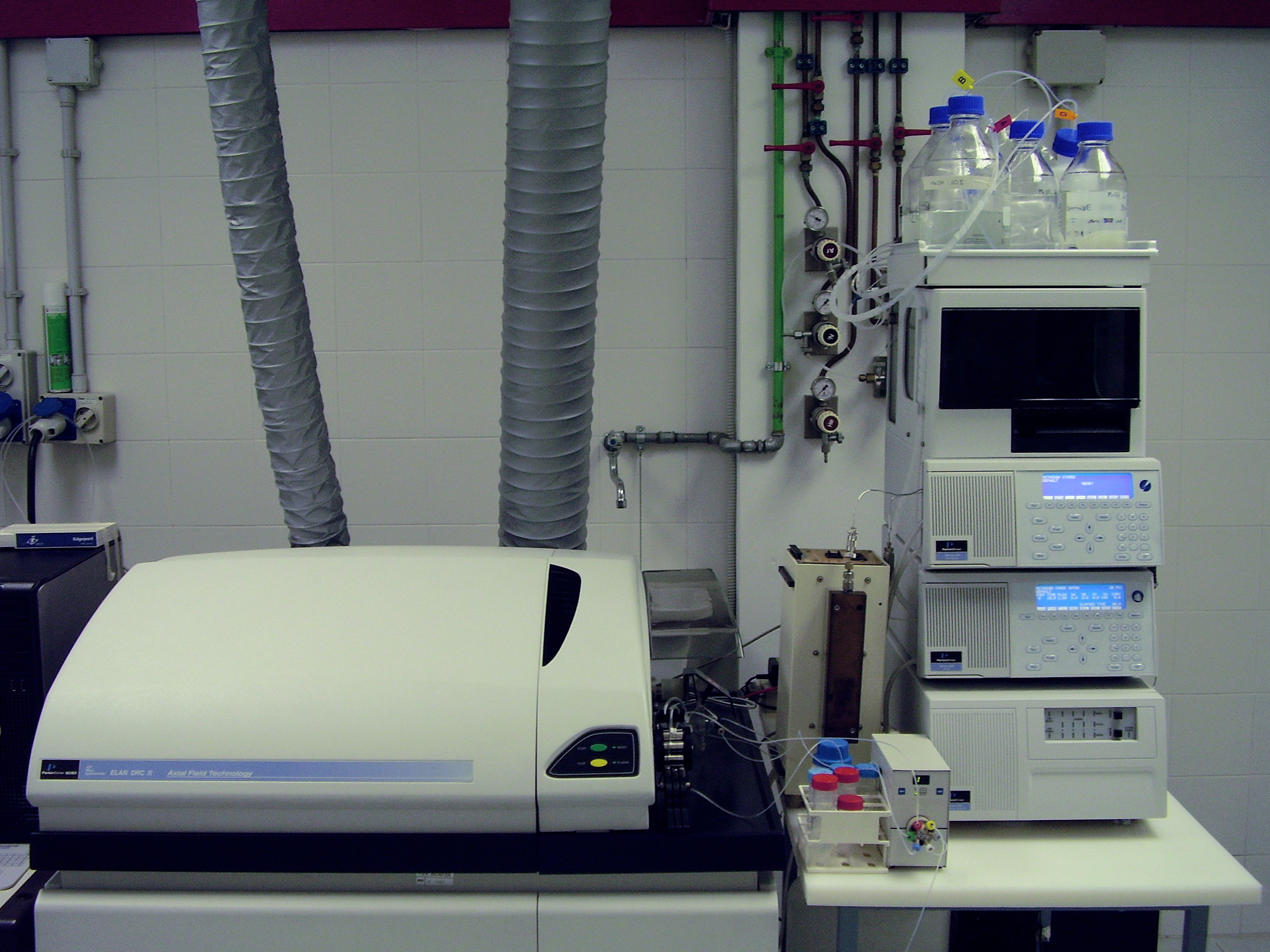 HPLC system coupled with ICP-MS